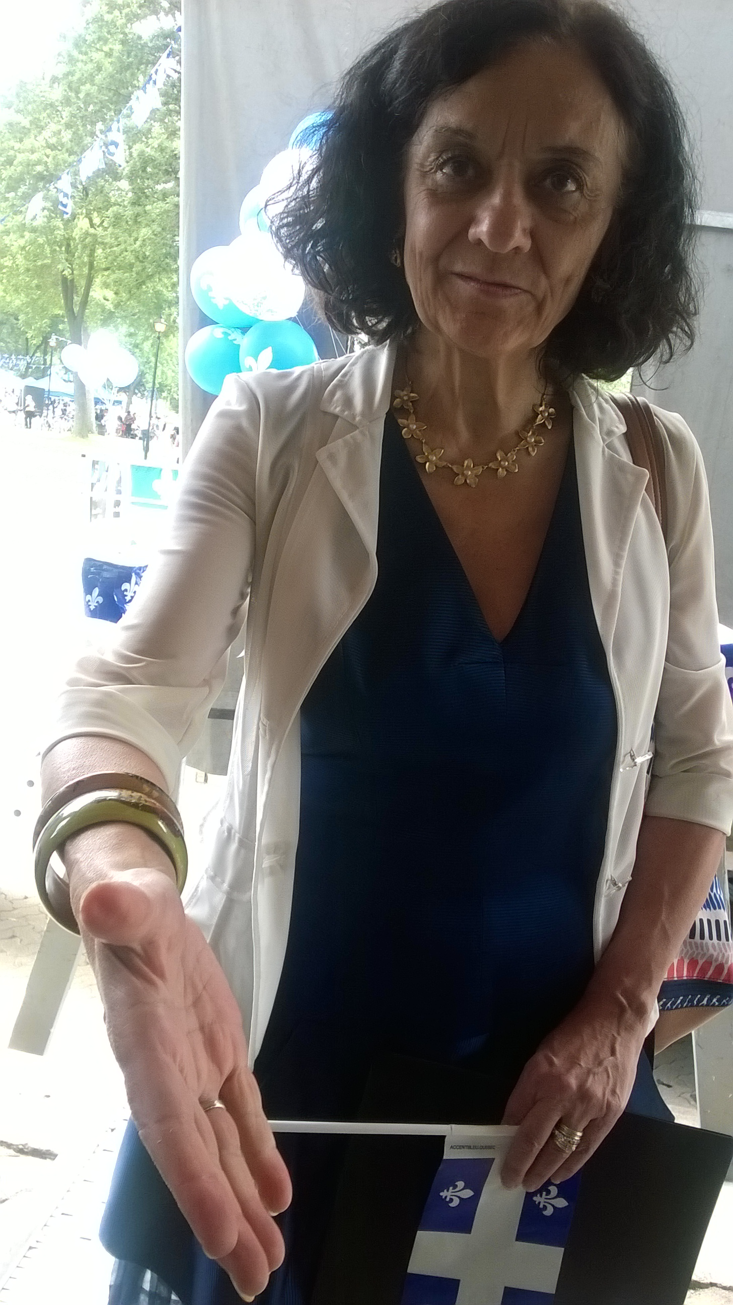 Rita De Santis photographed photographed in Montréal , Québec, Canada.